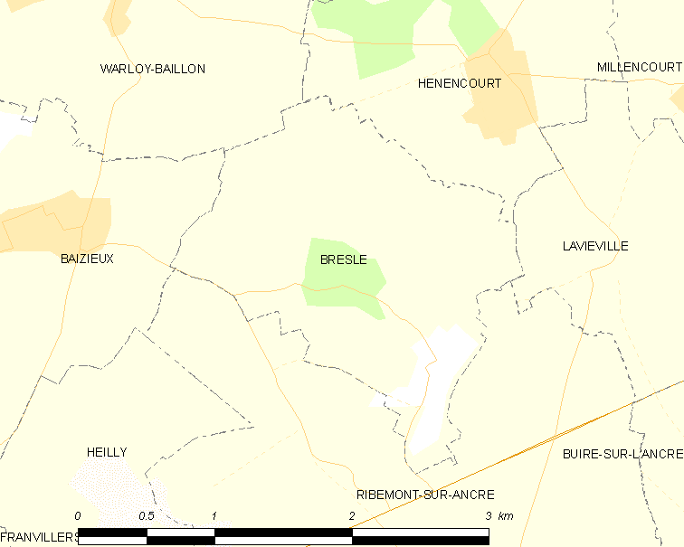 Map of French municipality Bresle